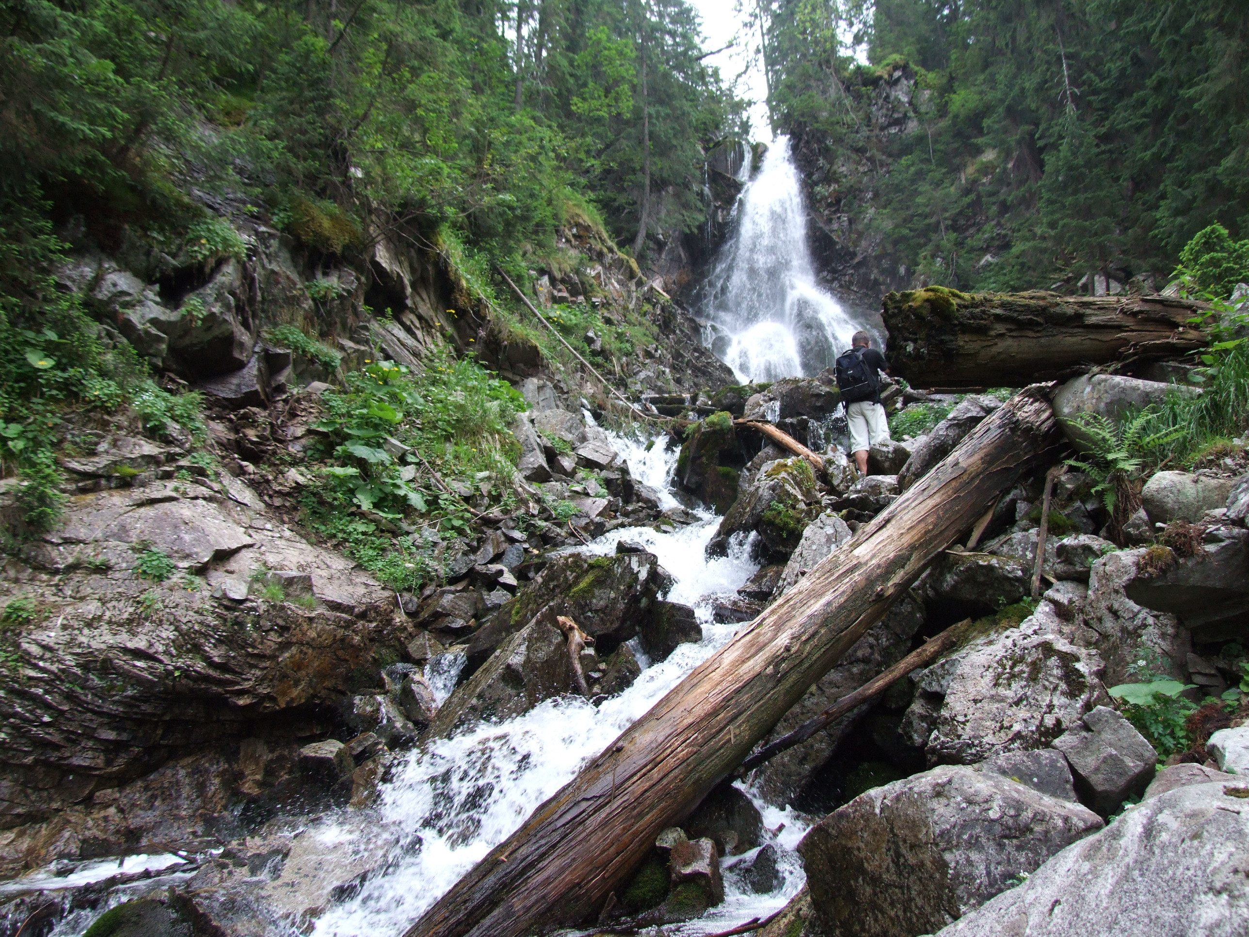 Rohackie Wodospady (West Tatra Mountains)